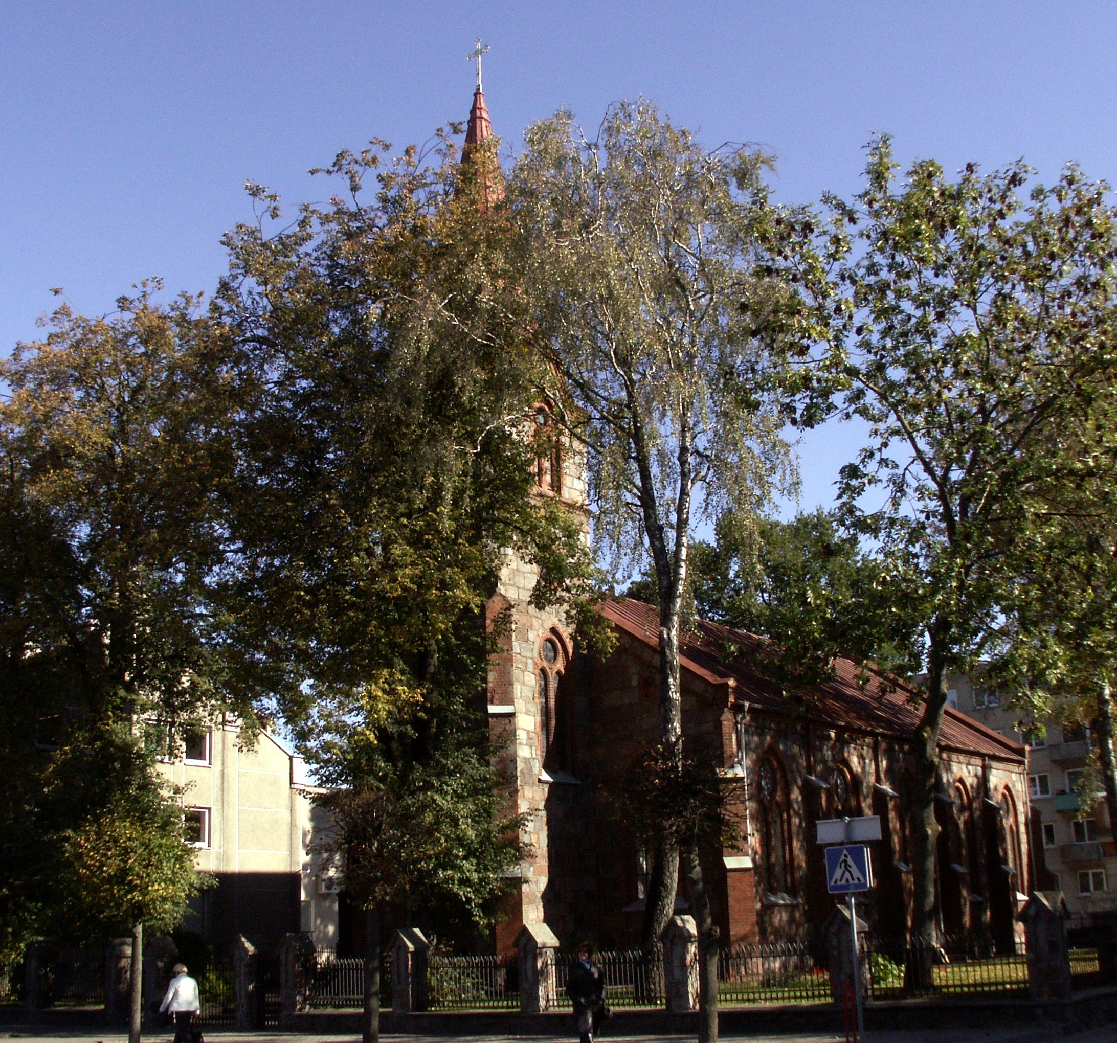 Ev. lutheran church in Kretinga, LithuaniaLietuvių: Kretingos evangelikų liuteronų bažnyčia, Lietuva